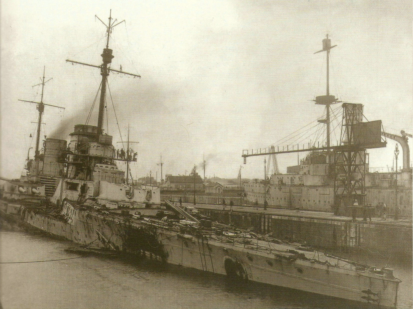 Photograph of the German battlecruiser SMS Seydlitz in harbor after the Battle of Jutland.